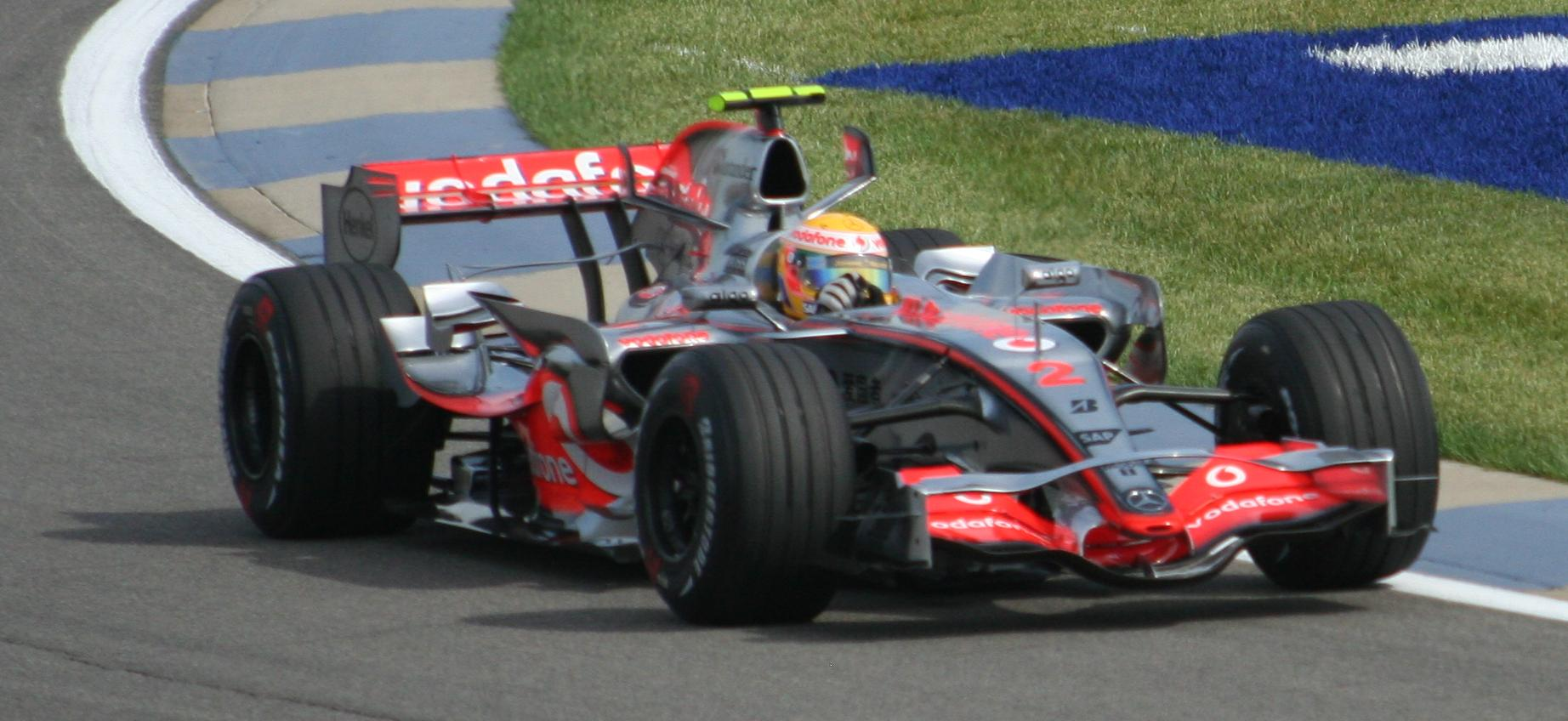 Lewis Hamilton driving for McLaren at the 2007 United States Grand Prix.